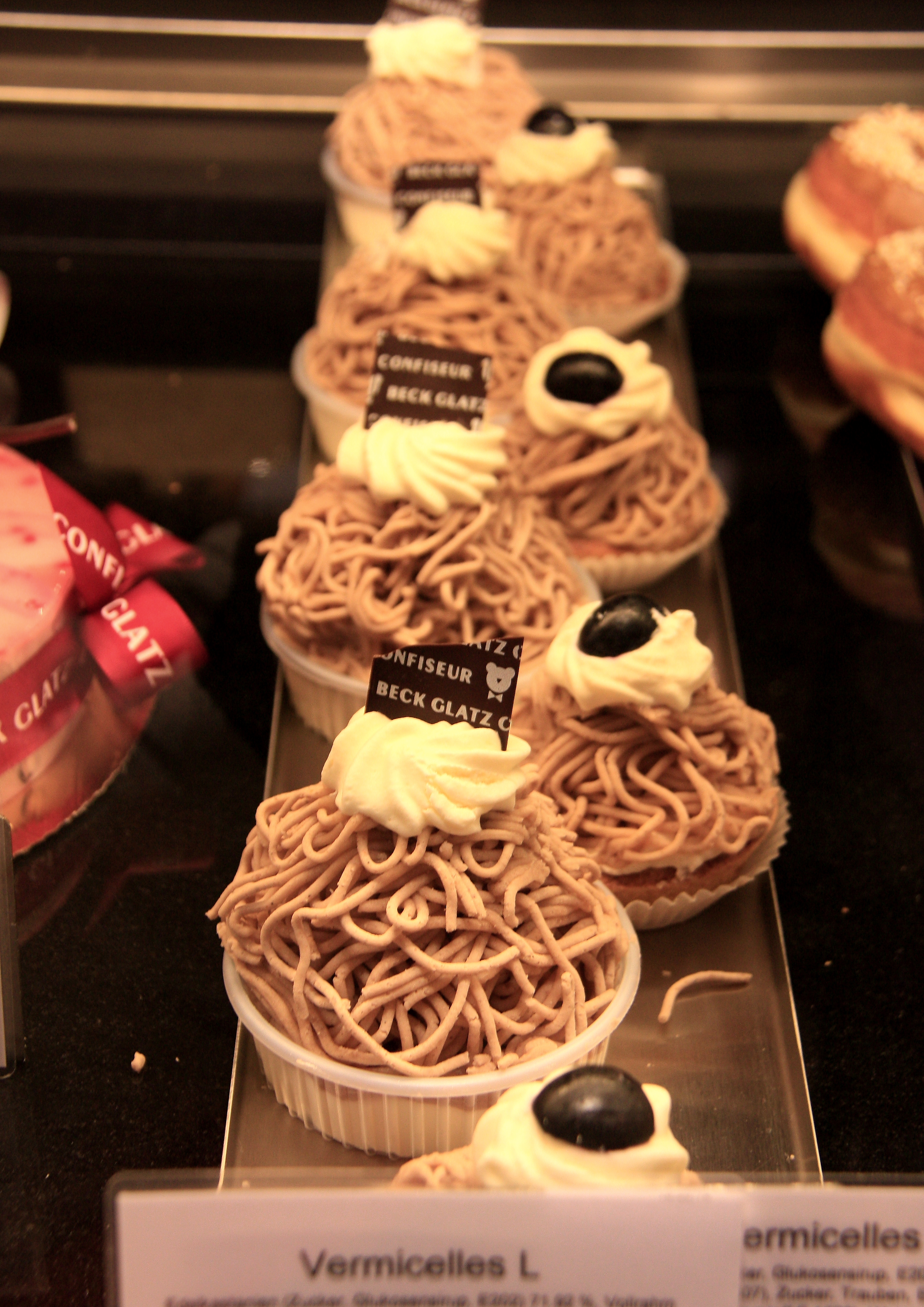 A dessert I will not attempt to make at home. It's made with Chestnut puree, sugar, vanilla and cream. Served cold and topped with whipped cream. Also called Swiss Vermicelles...